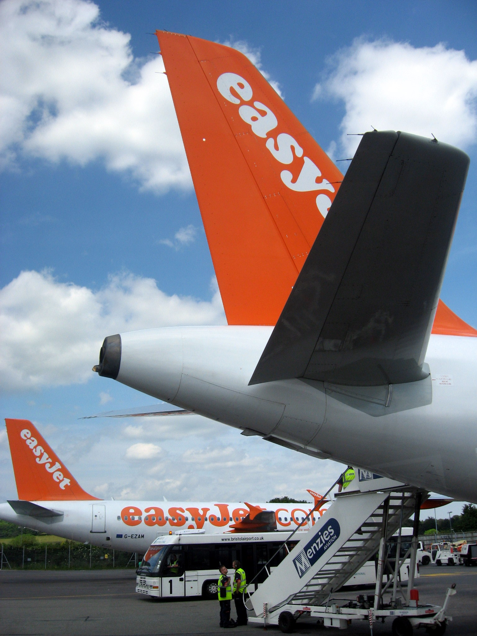 Tailplane of an easyJet Airbus A319 at Bristol International Airport